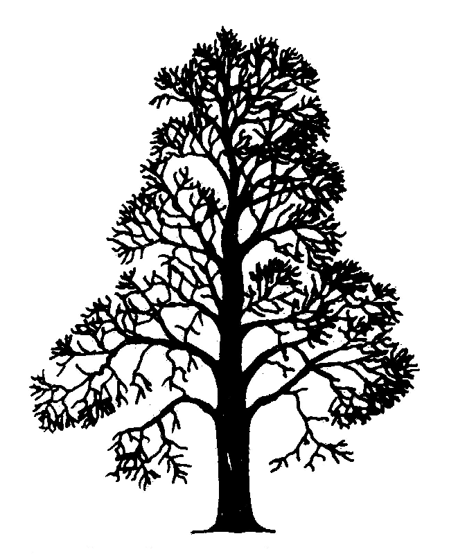 Sweet Chestnut - Castanea sativa